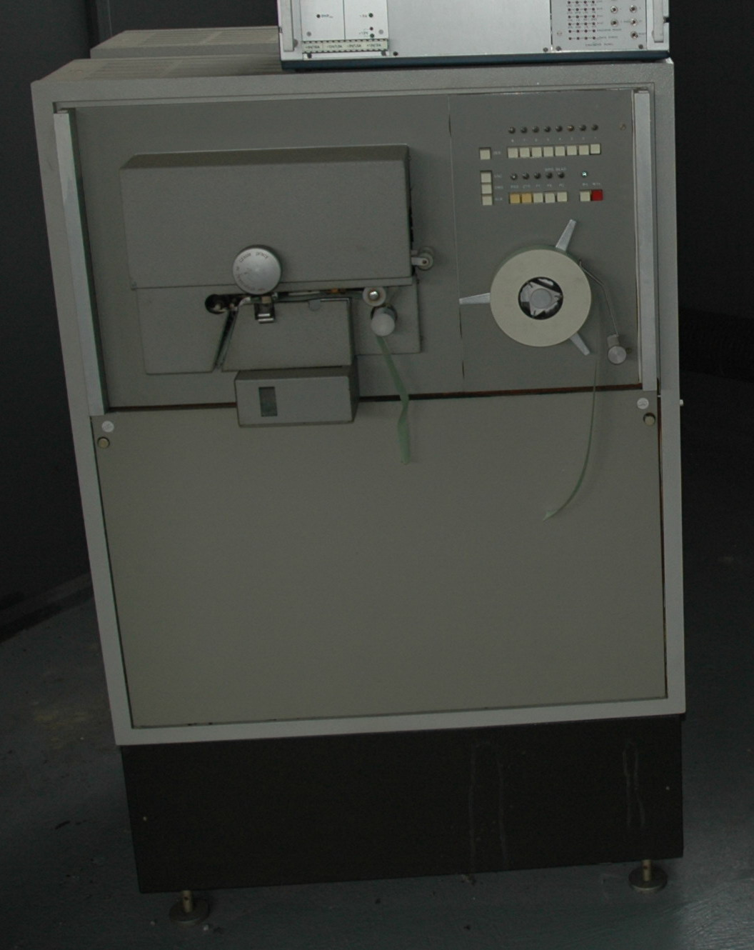 Poland, Jaworzyna Slaska - Museum of Industry and Railway in Lower Silesia, paper tape puncher for "Odra" computer.